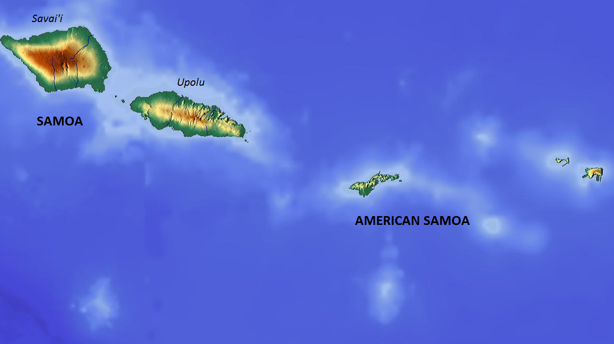 Map of the Samoas